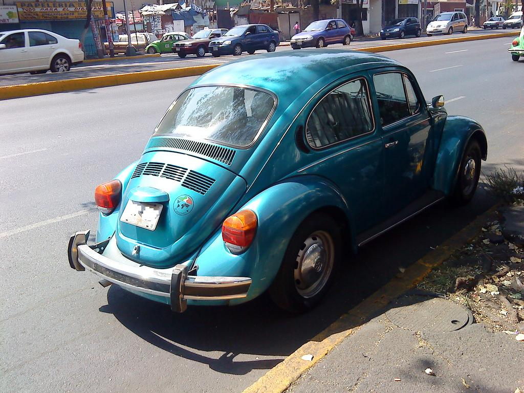 A mexican limited edition 21 Million Volkswagen Beetle in México.